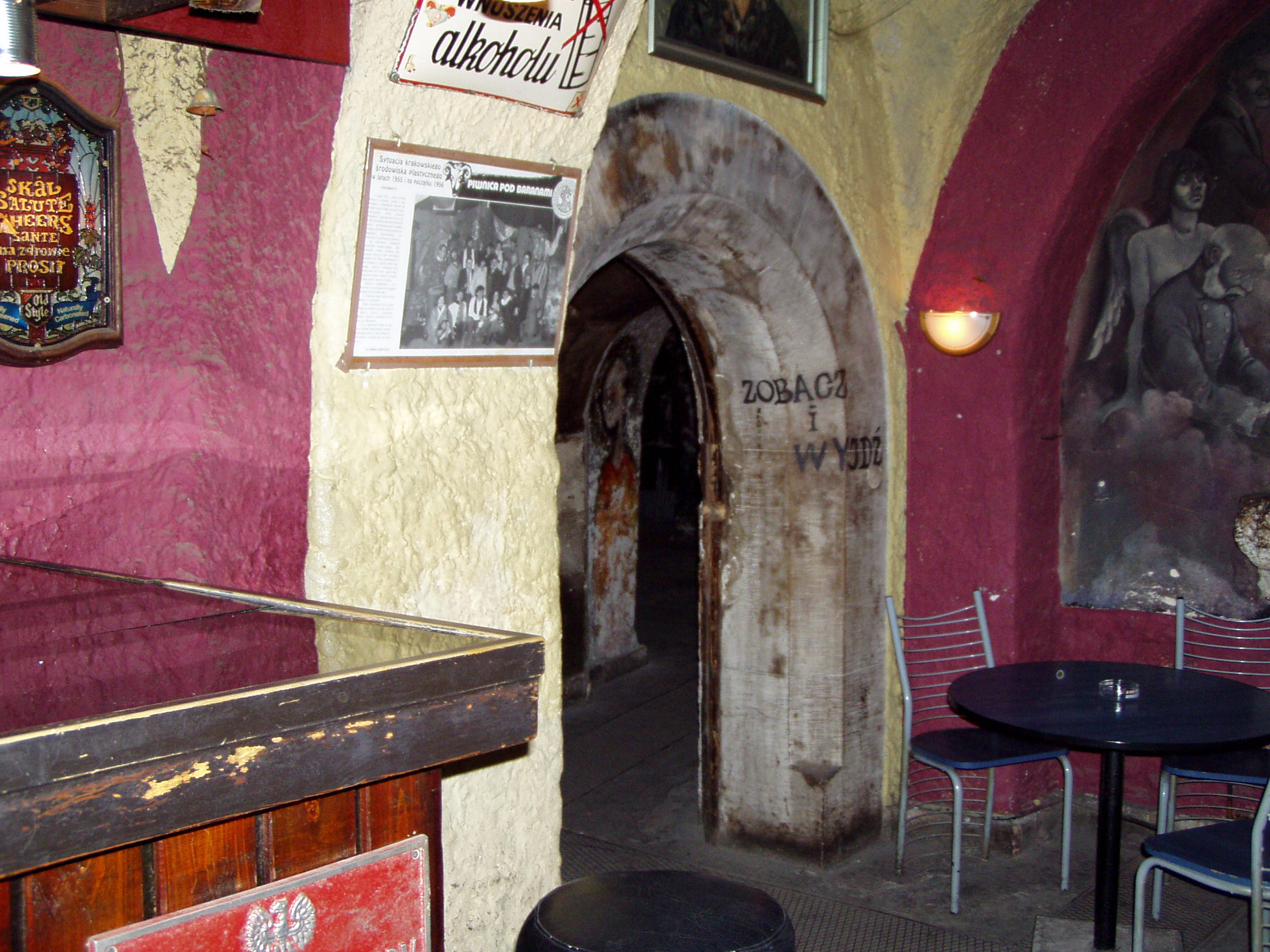 Piwnica pod Baranami, entrance.